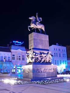 Monument to the liberators of Niš, picture made at night